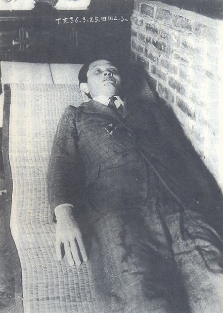 陳澄波 lying dead after being shot by the soldier of the authorities